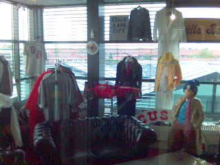 Small museum of personal items from Dutch broadcaster BNN's founder Bart de Graaff.